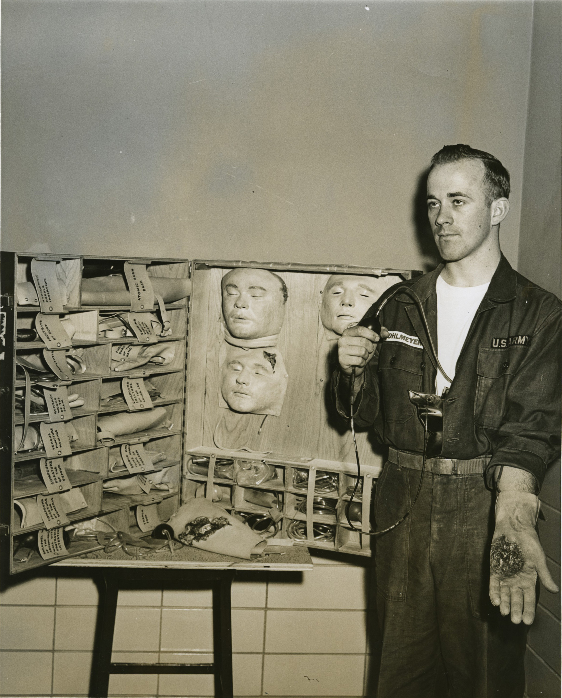 05/20/1958; Mass Casualties Course Completed at Walter Reed - A highlight of the week-long course in Management of Mass Casualties completed Saturday, May 17, at Walter Reed Army Institute of Research was a demonstration of wound moulages as a training aid in first aid treatment of wounds. The moulages realistically duplicate almost any type of wound that may occur in armed combat or as a result of a nuclear explosion. As is demonstrated above by Private First Class Carl W. Bohlmeyer, a flow of "blood" to the wound is controlled by pressure on a bulb which spurts the blood through a system of tubes concealed in the clothing of the "victim". Either veinal [venal?] or arterial bleeding can be simulated by the rapidity with which the blood is pumped, and the tubes are placed so that the bleeding can be stopped by normal first aid measures. In major wound moulages, the tubes and be "tied off" in the same manner that a normal artery would be. The moulage kit shown above contains twenty of the simulated wounds, including duplications of radiation burns. Last week's course was attended by military and civilian defense officials from throughout the United States. Credit: Walter Reed Army Medical Center Garrison Directorate of Public Works Archive Walter Reed Army Medical Center, WRAMC